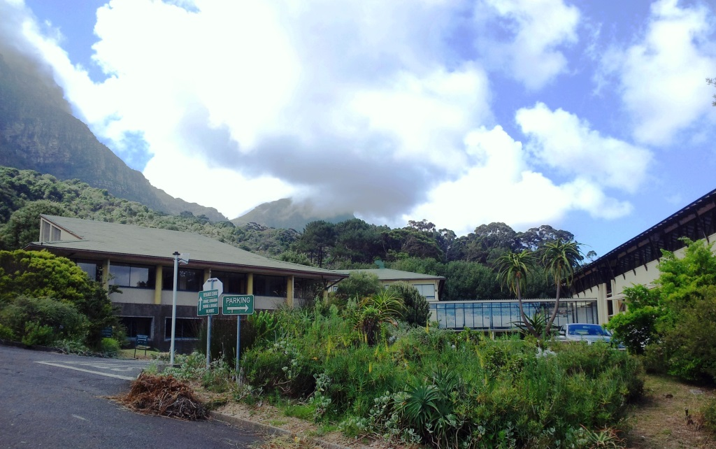 View of the Harry Molteno Library - Kirstenbosch Research Centre. Cape Town South Africa.